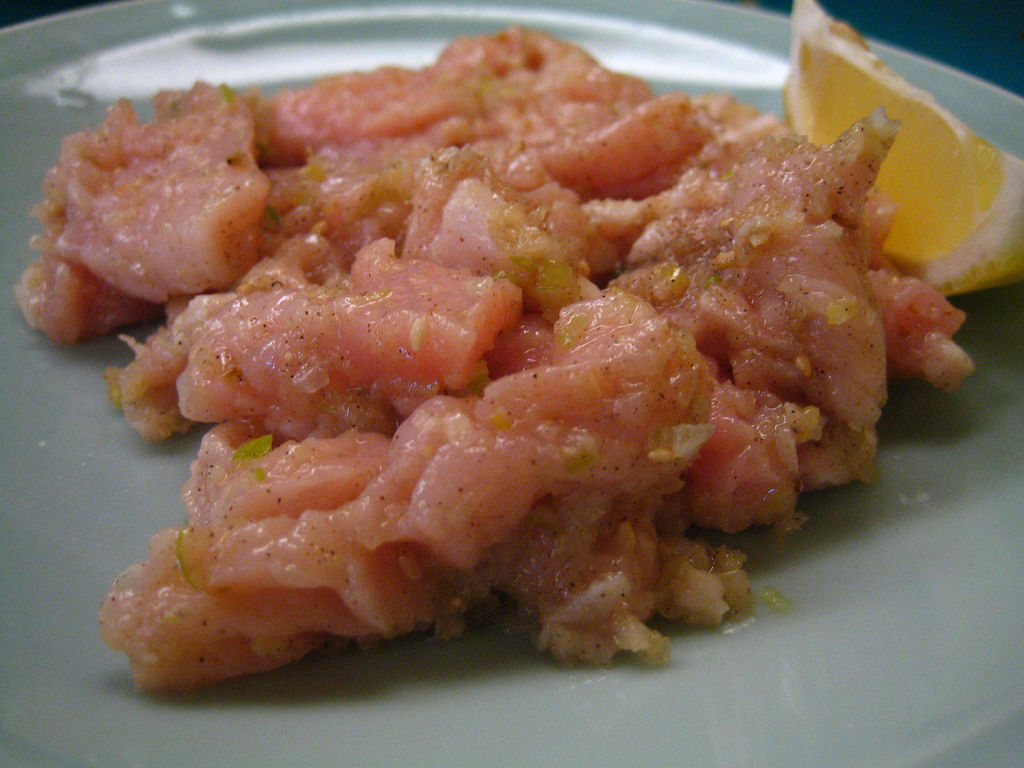 上ミノ(Rumen. Cow's stomach).